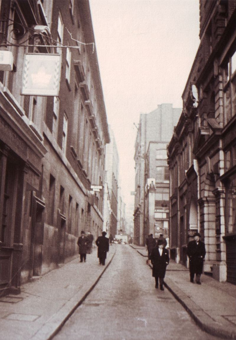 One of the photographs taken around or relating to the fur trade center Niddastrasse, Frankfurt am Main, Germany.